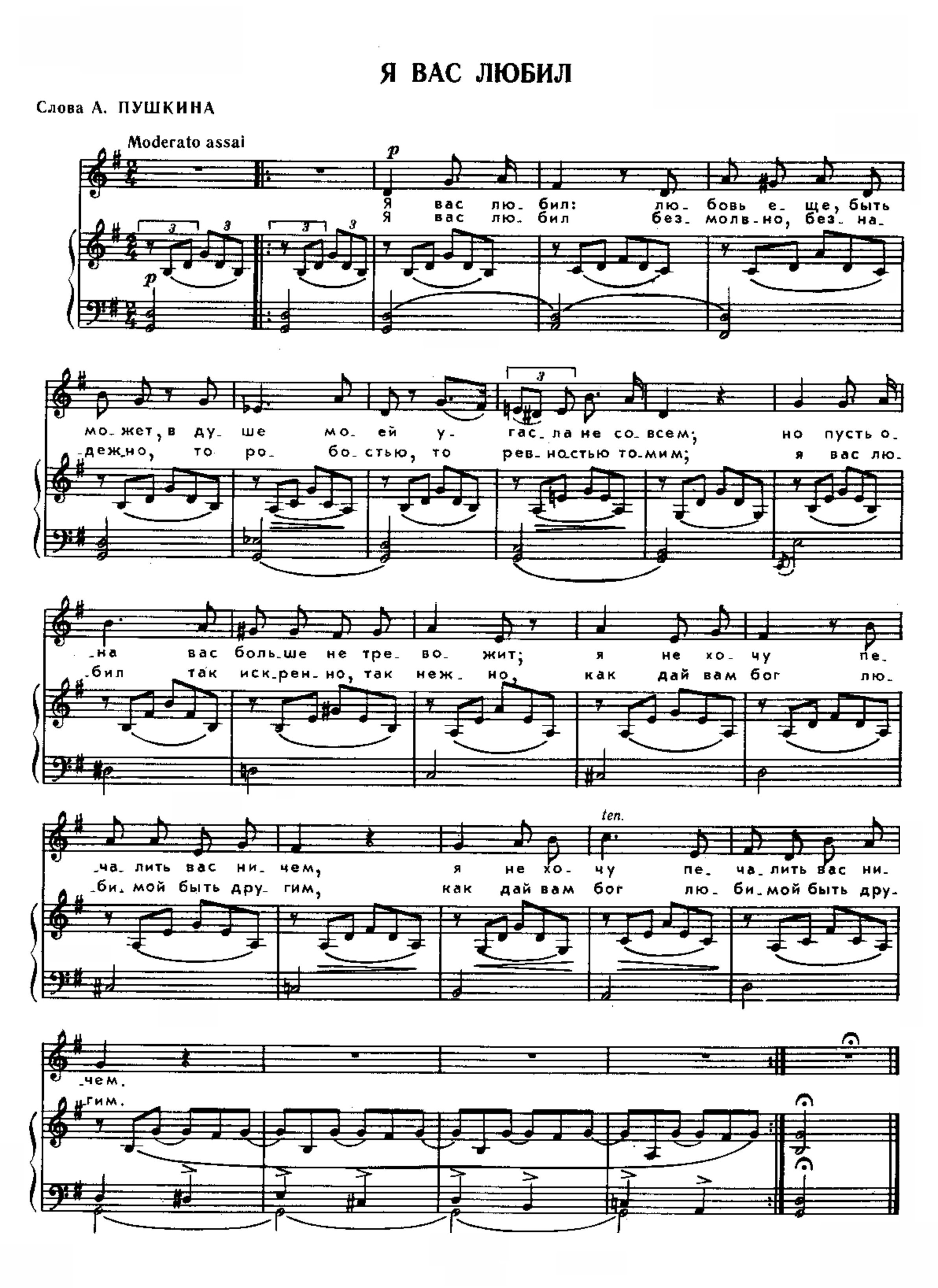 Alexander Dargomyzhsky Ya vas lyubil Romance to Alexander Pushkin's poem